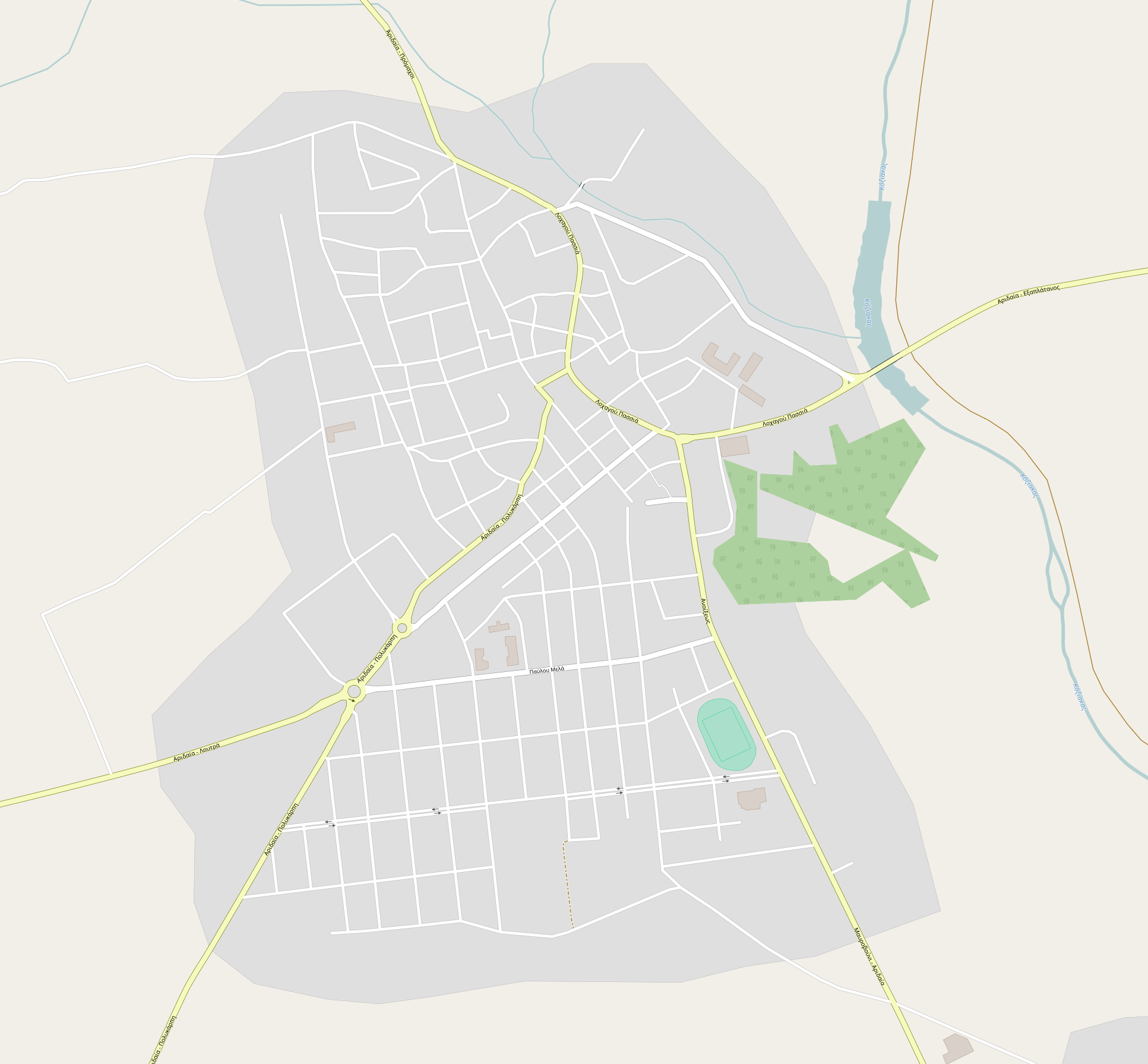 OpenStreetMap - Map of Aridaia